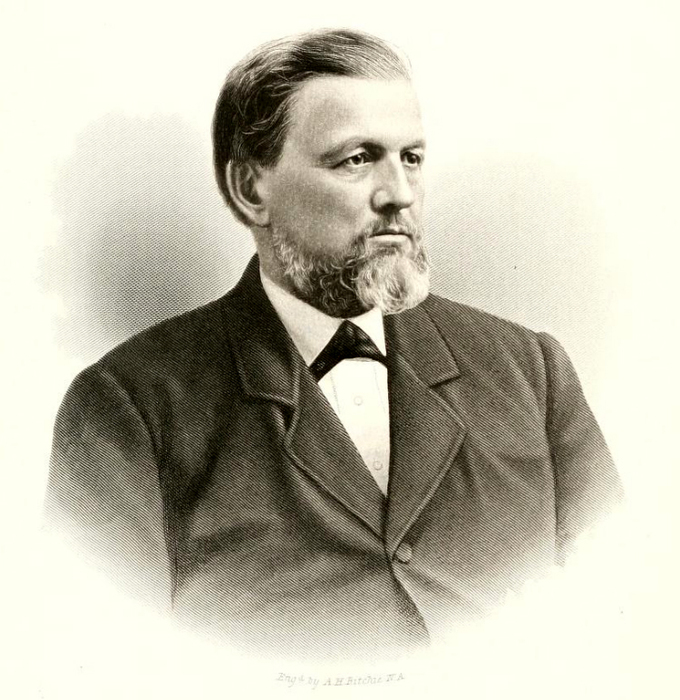 Orick Herman Greenleaf (1823-1896), American businessman and philanthropist.